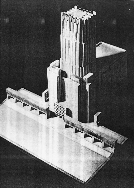 Swiatynia_Opatrznosci_Bozej_B.Pniewski